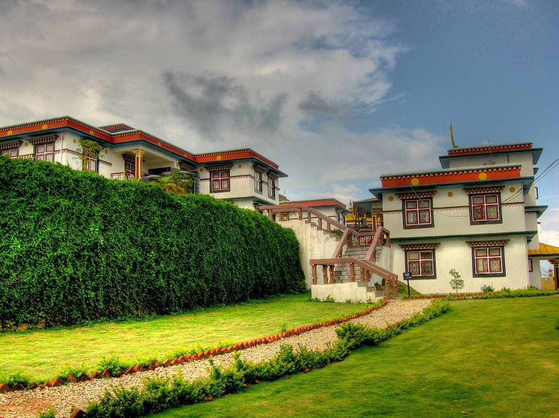 Amitava Monastery, Nepal Read more